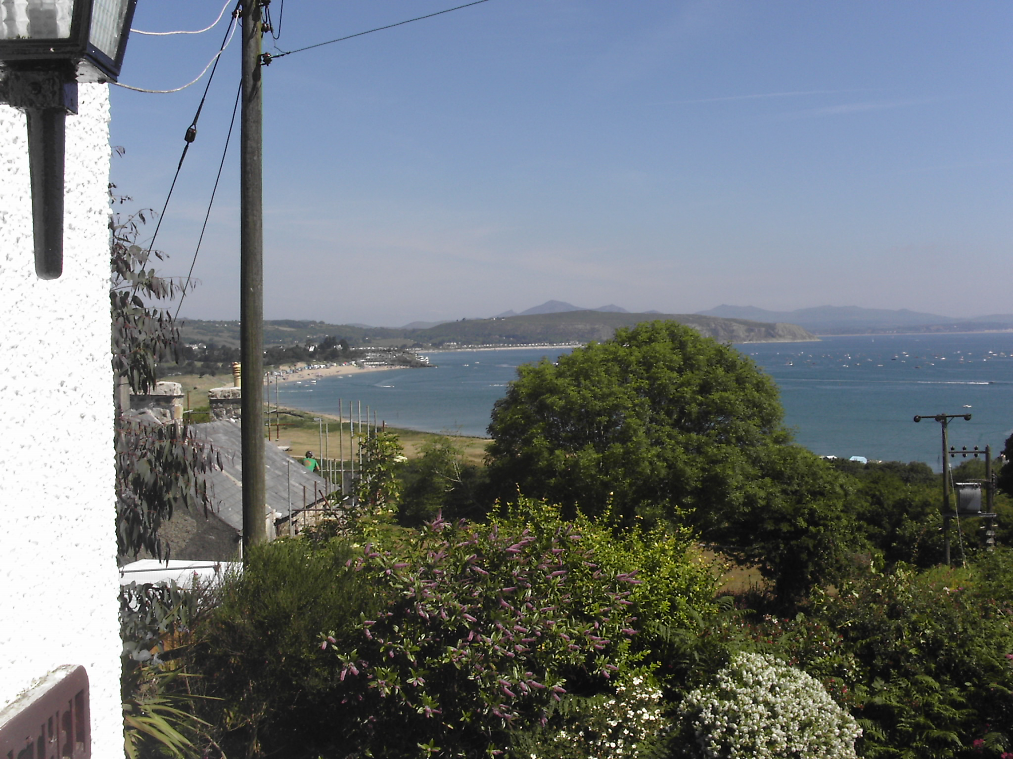 Photograph by Robert Nickson, 9th July 2005.